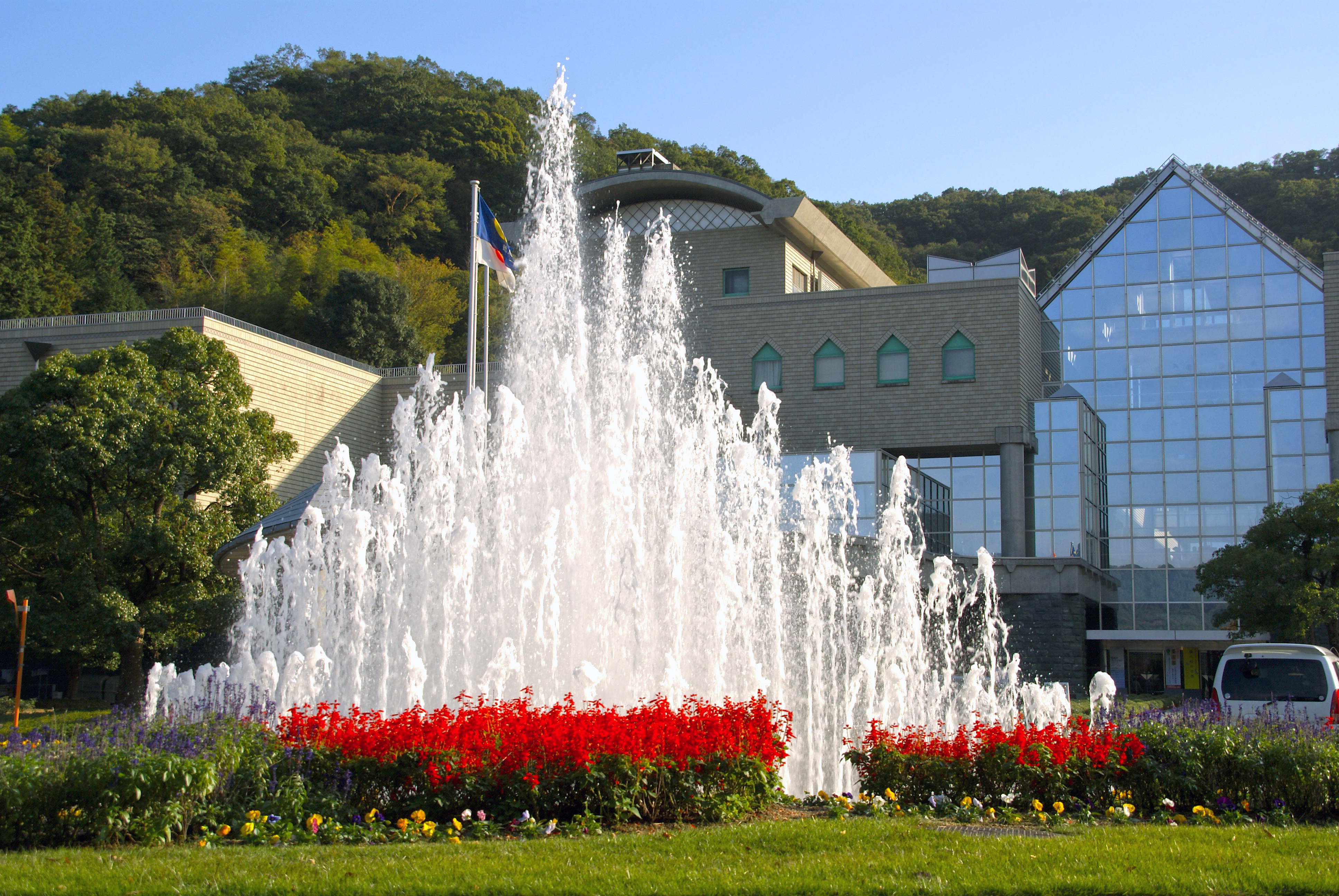 Tokushima Bunka-no-Mori Park in Tokushima, Tokushima prefecture, Japan